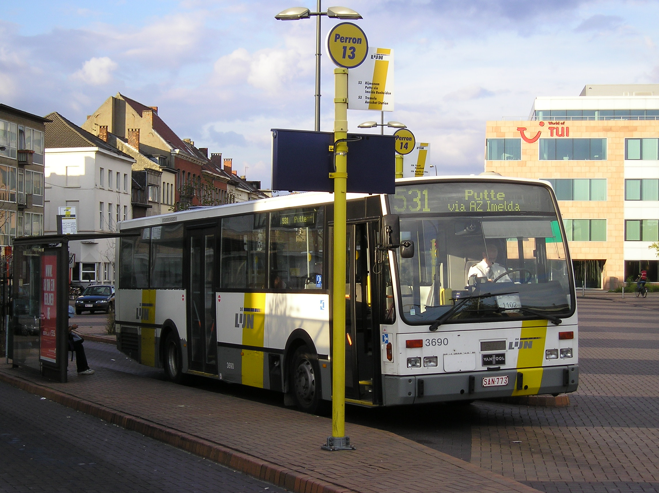 Van Hool bus of the Flemish public transport authority De Lijn in Mechelen, on the train station square. Year built 2000.